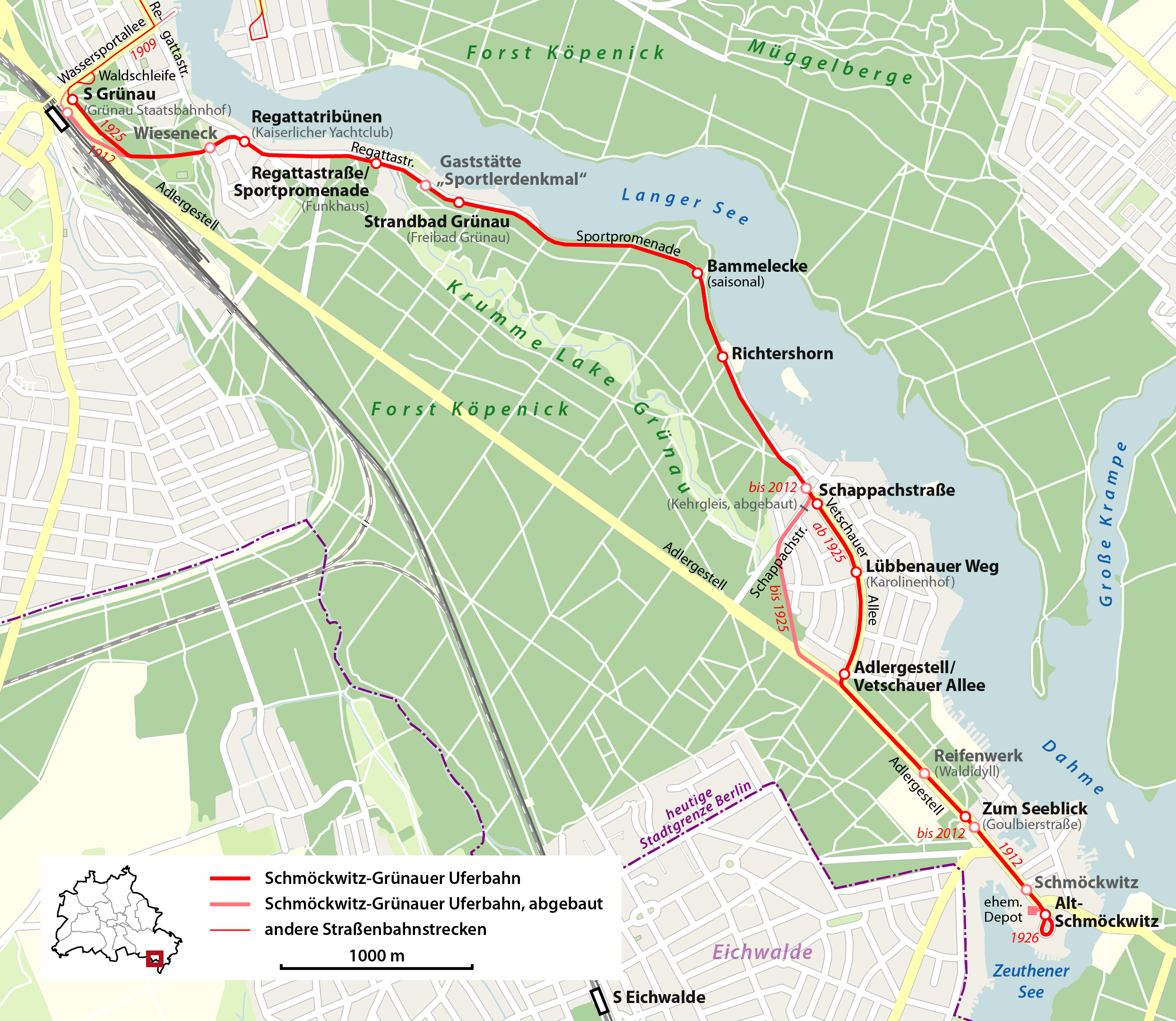 Map of Schmöckwitz-Grünau tram (Berlin) This map may be incomplete, and may contain errors. Don't rely solely on it for navigation.